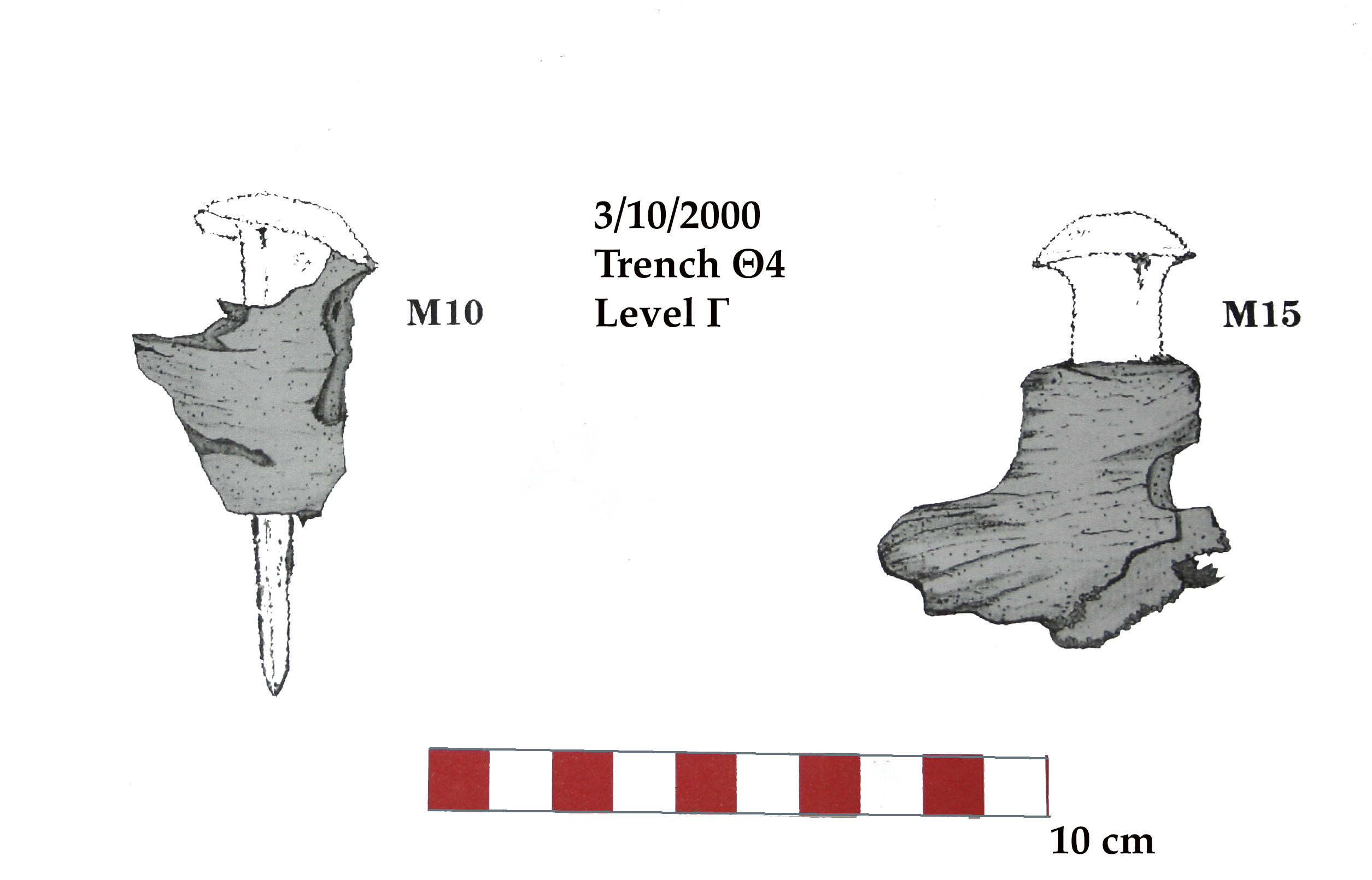 Architectural drawings of wooden treenails with copper nails passing through the center. These were found in trench Θ4 in the year 2000 during excavation of the Classical shipwreck of Alonnisos.